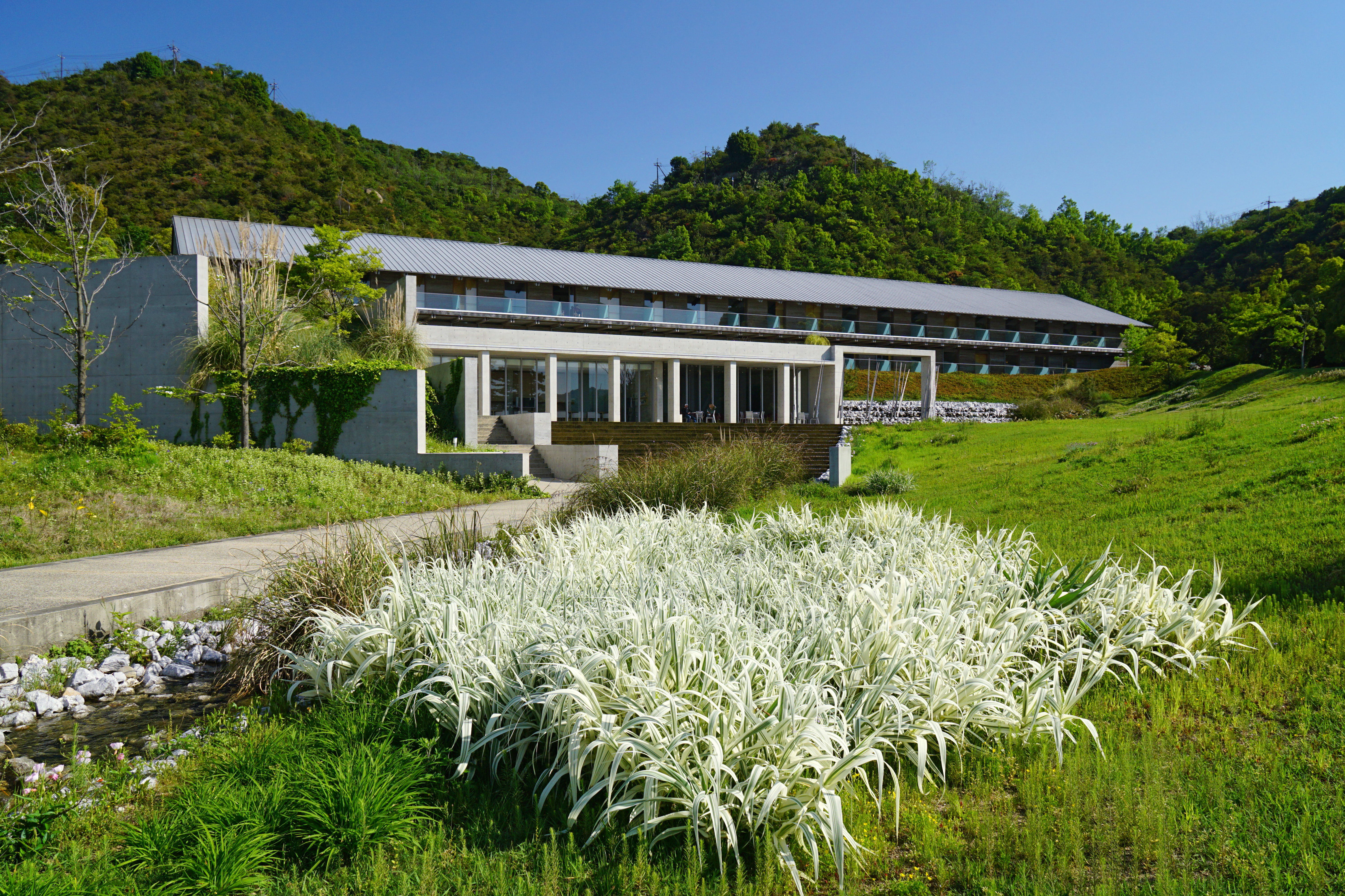 Benesse House "Park" of Benesse Art Site Naoshima in Naoshima, Kagawa prefecture, Japan